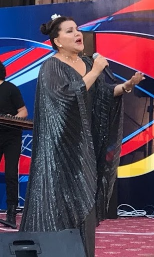 Yulduz Usmonova presenting her new program in Dushanbe Amphitheater